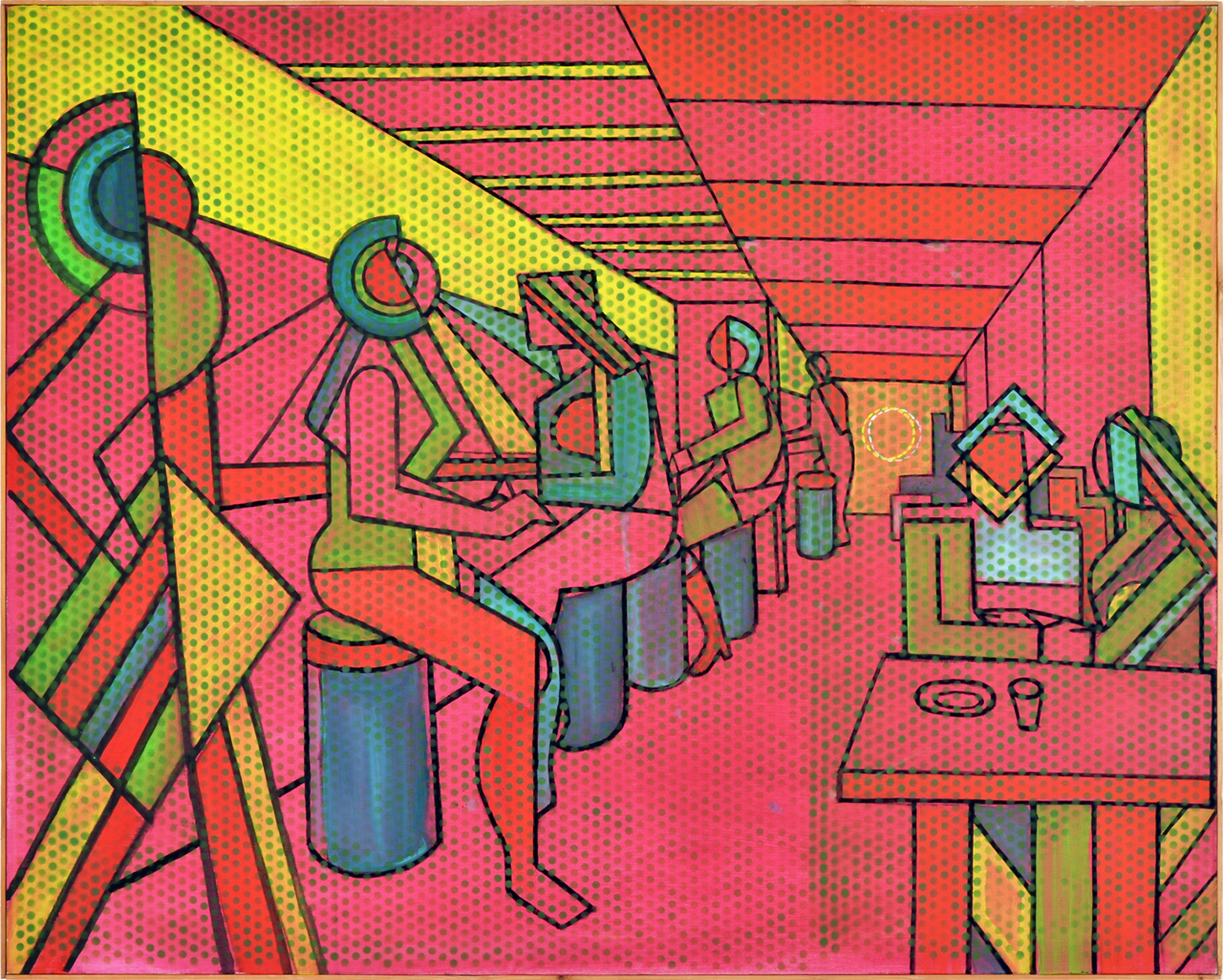 Rudolf Němec, Red bar (1984-85), acryl, email, oil, canvas